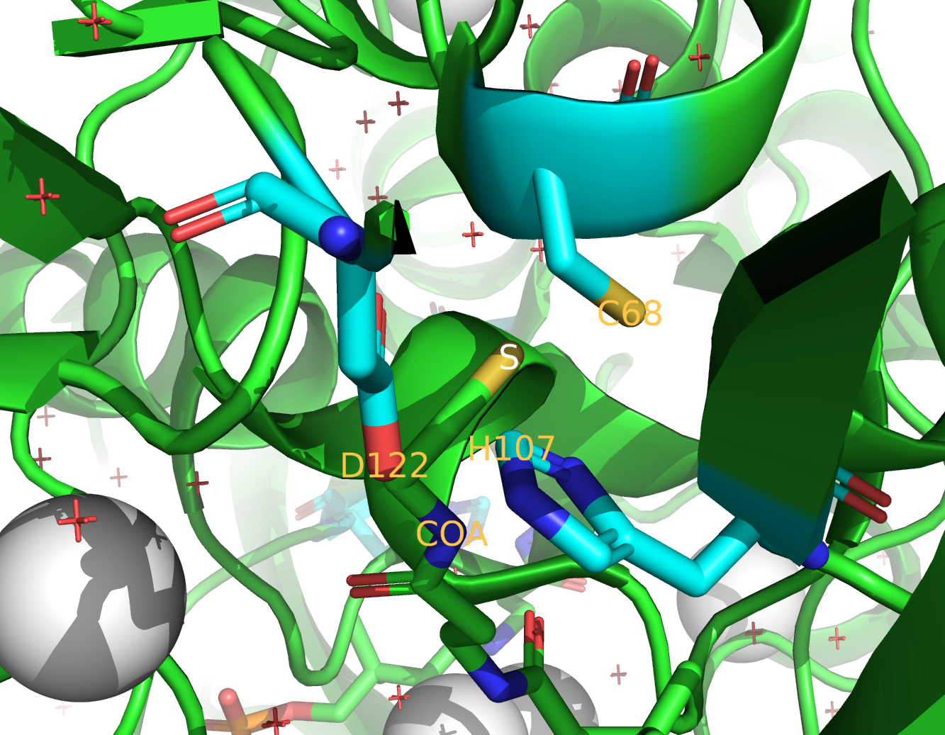 Cartoon depiction of NAT catalytic triad